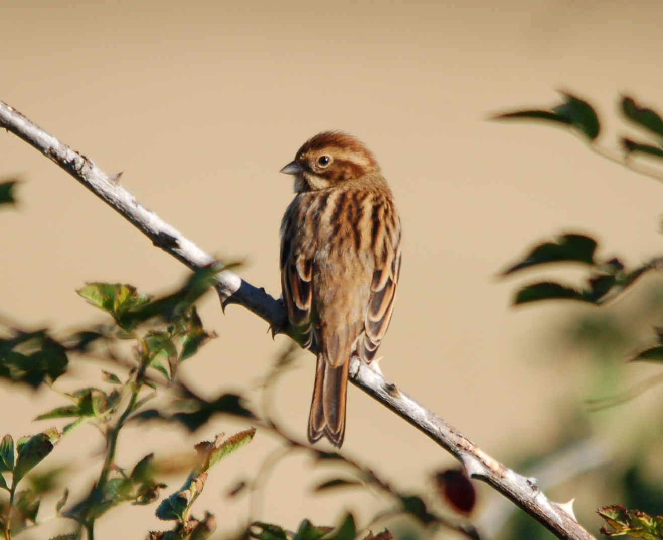 Reed Bunting, Emberiza schoeniclus (female), Larvik, Norway